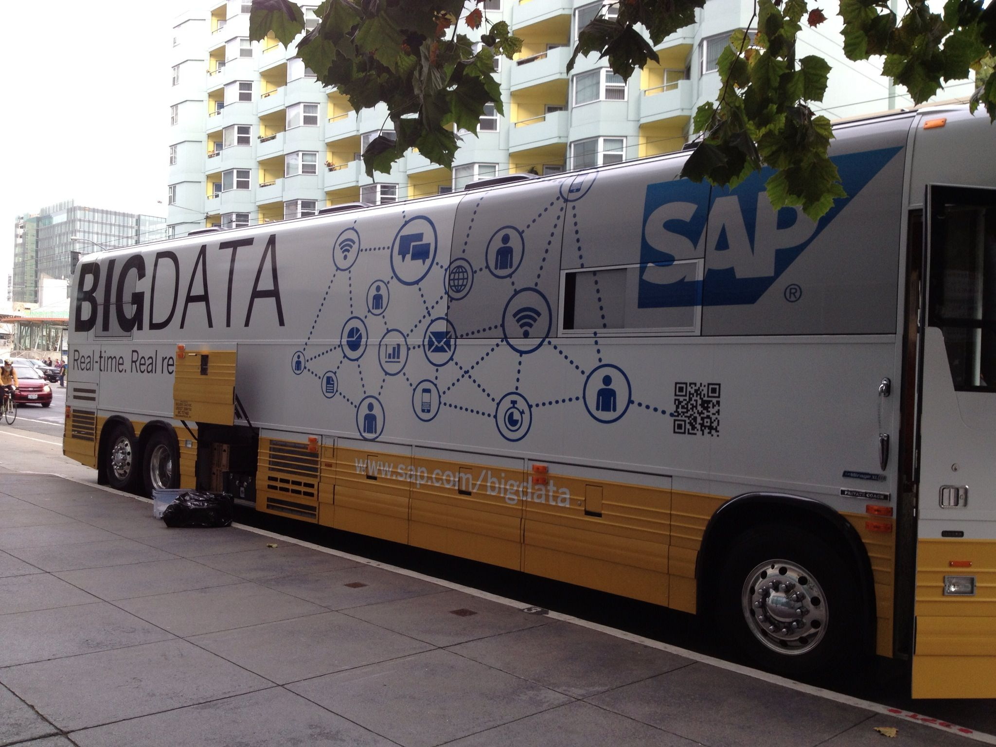 Bus wrapped with SAP Big Data parked outside IDF13.